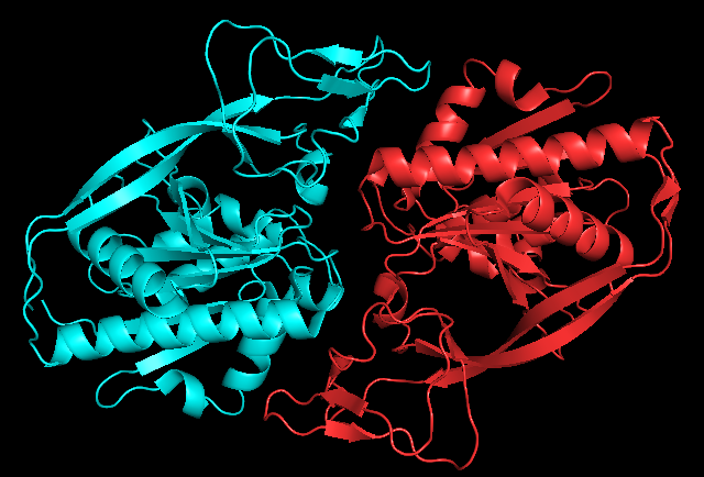 Structure of Aspartoacylase generated from 2I3C.